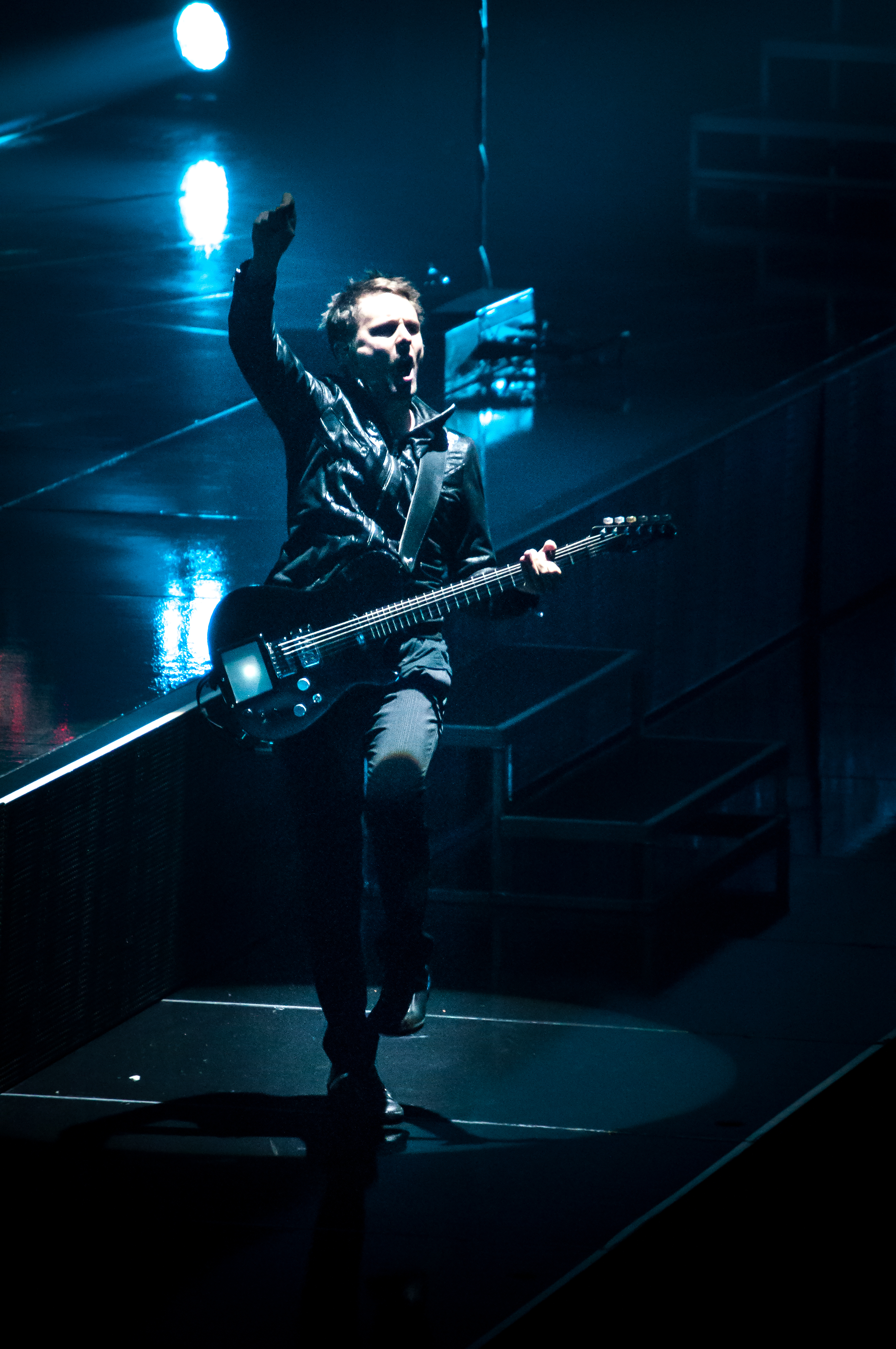 Matthew Bellamy of Muse at Air Canada Centre, Toronto on April 10, 2013 as part of The 2nd Law tour.